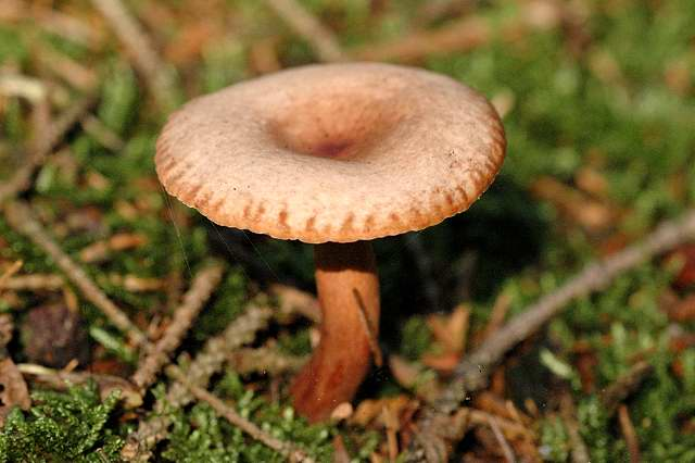 Lactarius spec. from Commanster, Belgian High Ardennes. The determination of the species shown in this picture has been verified.